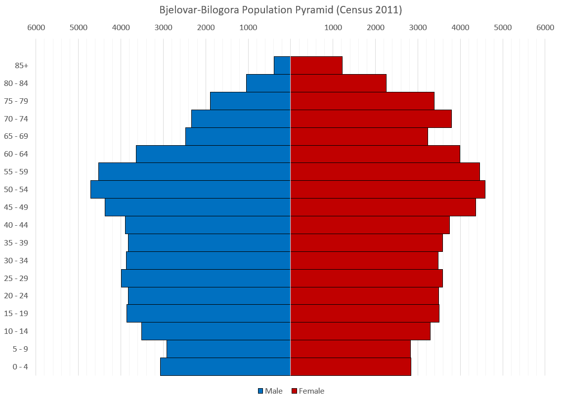 Population pyramid of Bjelovar-Bilogora County. Version in English. Data from 2011 Census; available at